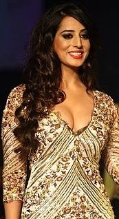 Designer Pria Kataria Puri (right) with Mahi Gill at Lakme Fashion Week, by SouBoyy, Sourendra Kumar Das.